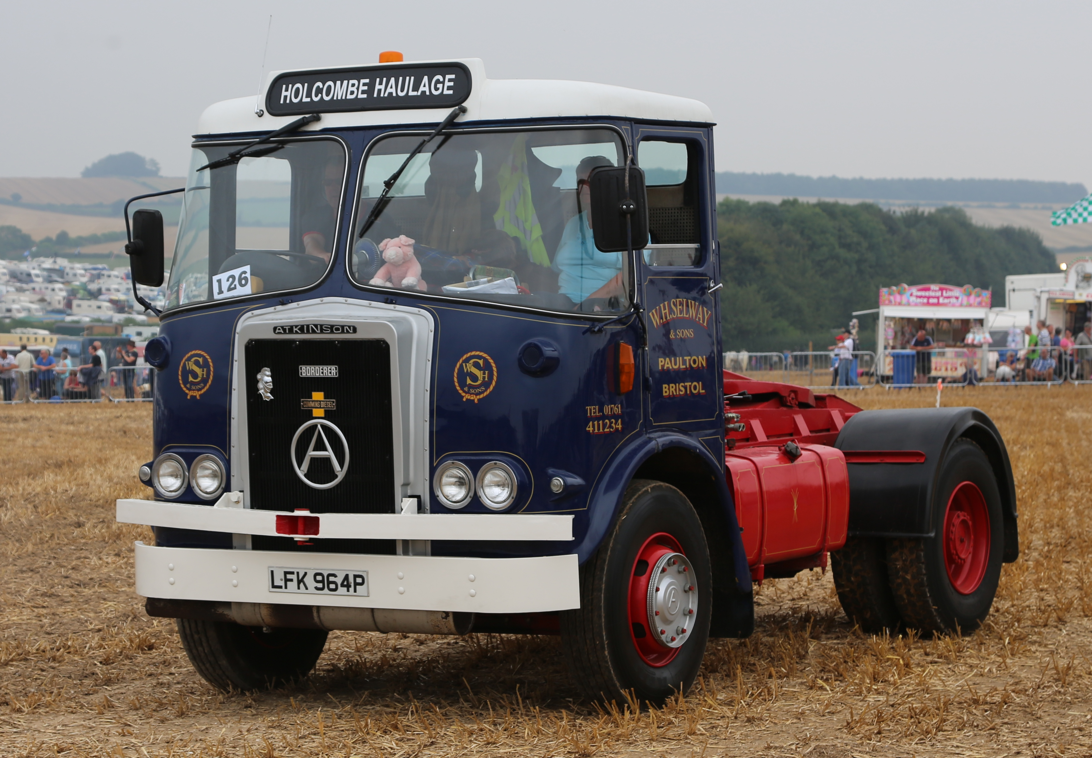 Photo of a 1975 Atkinson Borderer